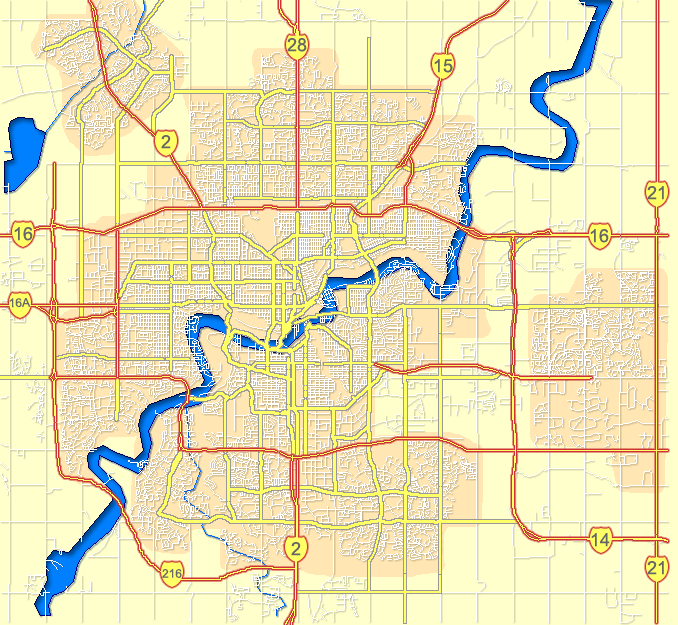 Outline map of Edmonton